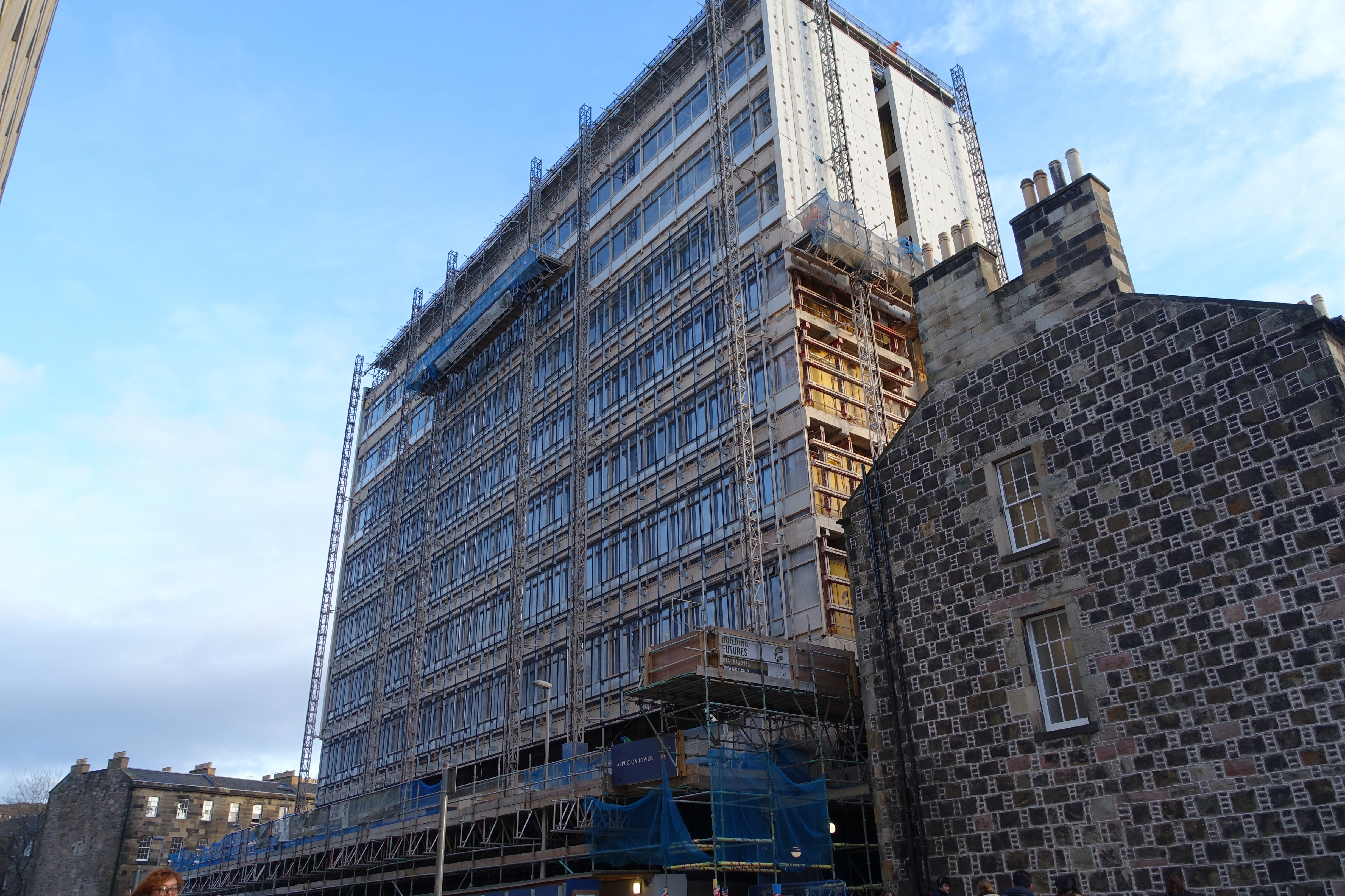 Appleton Tower as seen from Crichton St. January 2016 with renovations ongoing